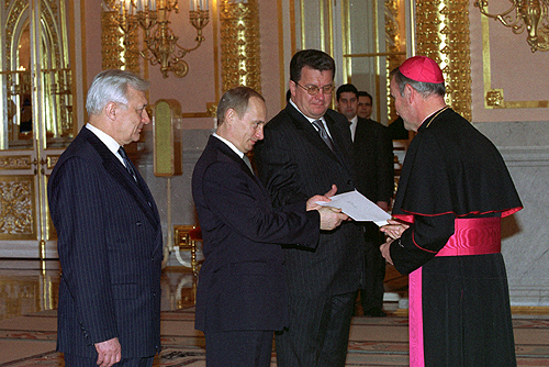 THE KREMLIN, MOSCOW. Ambassador of Vatican, Antonio Mennini, presenting his credentials to President Putin.